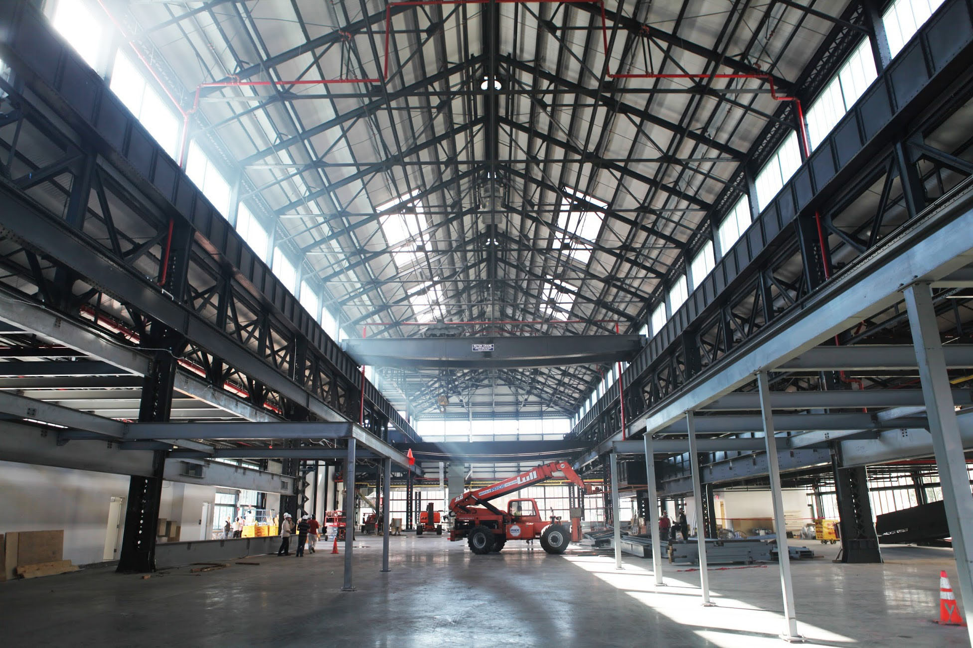 August 31, 2015 photo of Brooklyn Navy Yard Building 128 under renovation for New Lab